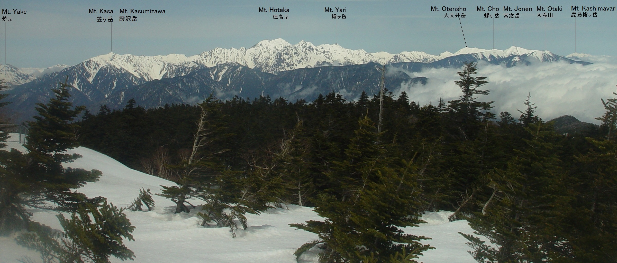 Hida Mountains seen from Mount Hachimori in Nagano prefecture, Japan. (with note)